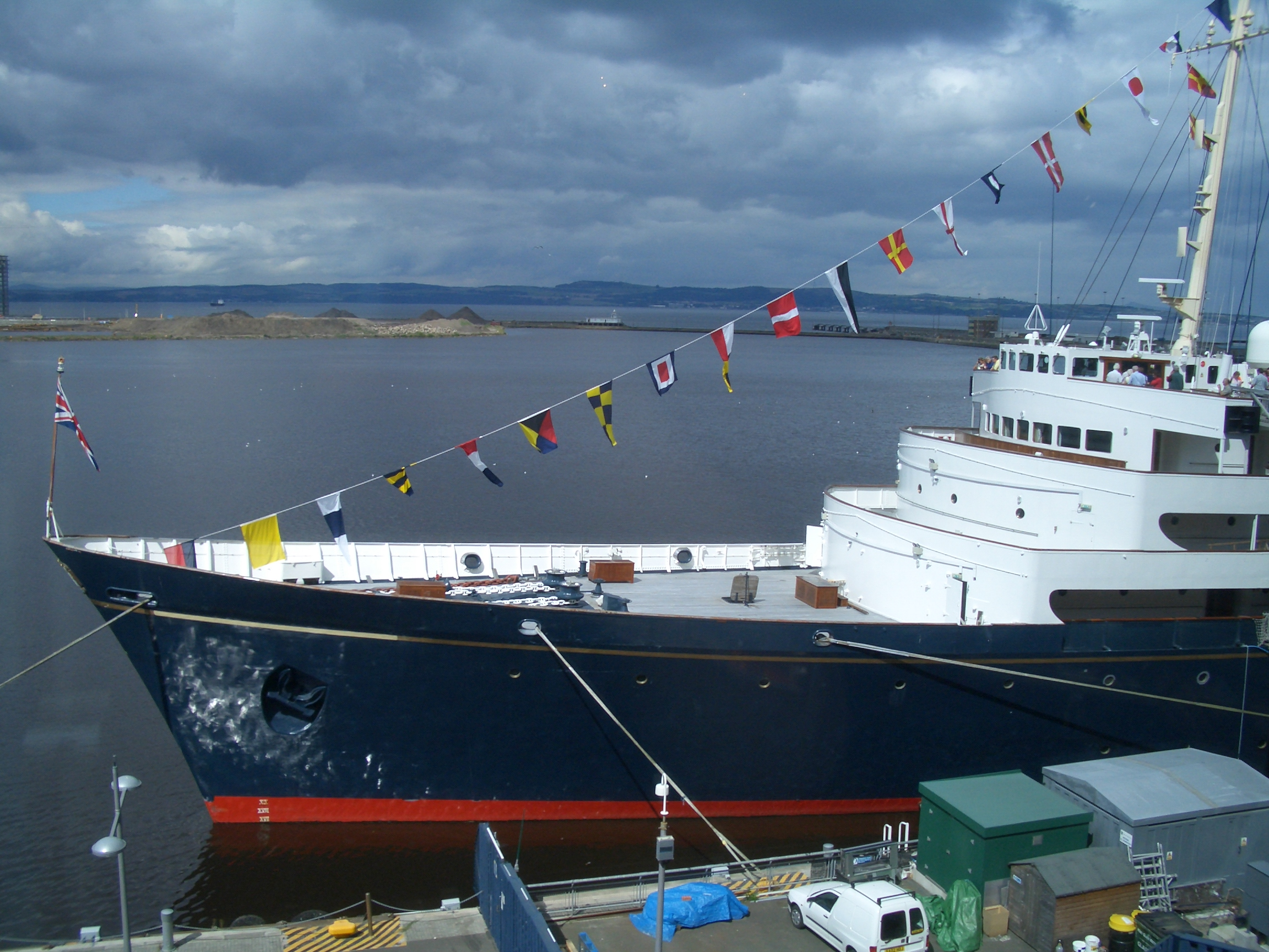 Bow of the HMY Britannia